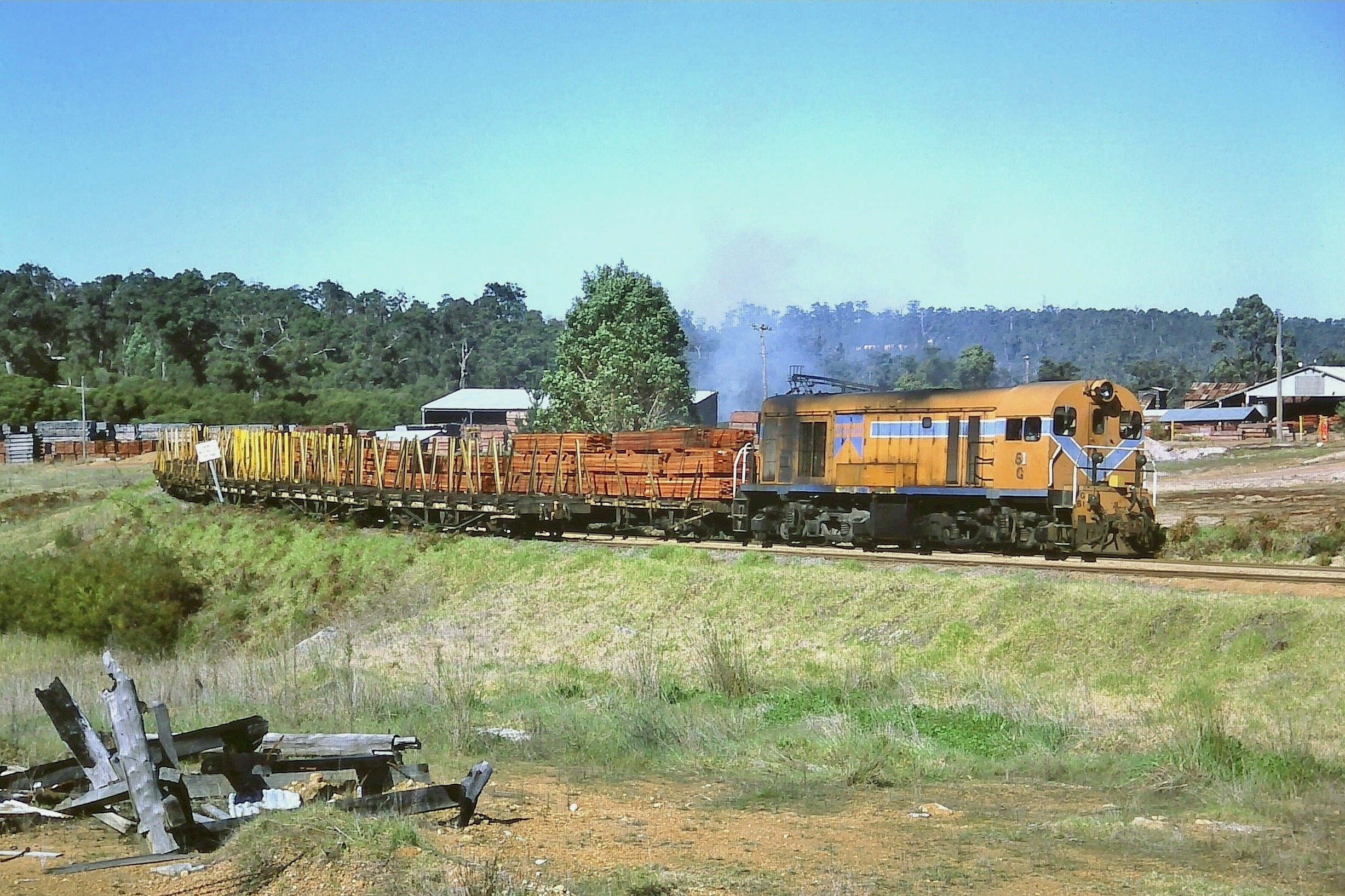 In the pale winter sunshine, ex-Midland Railway of Western Australia G class locomotive no G51, in Westrail orange and blue livery, departs from the Northcliffe timber mill, Western Australia with a train of loaded timber wagons bound for Manjimup, to the north.G51 was built in English Electric's Australian factory in Rocklea, Queensland. It was basically a British Rail Class 20 fitted with cape gauge wheelsets, Western Australian style headlights, and a few other minor body alterations. The very last locomotive to be acquired by the MRWA, it entered service in May 1963, less than a year before the MRWA's assets and operations were taken over by the Western Australian Government Railways (WAGR) (later renamed Westrail). After being repainted into the WAGR green and red livery in 1968, and later still into the Westrail livery seen here, the locomotive remained in service until May 1990, and was scrapped in January 1991. Kodachrome slide converted by Kaiser Baas Photo Maker Pro into a digital image.